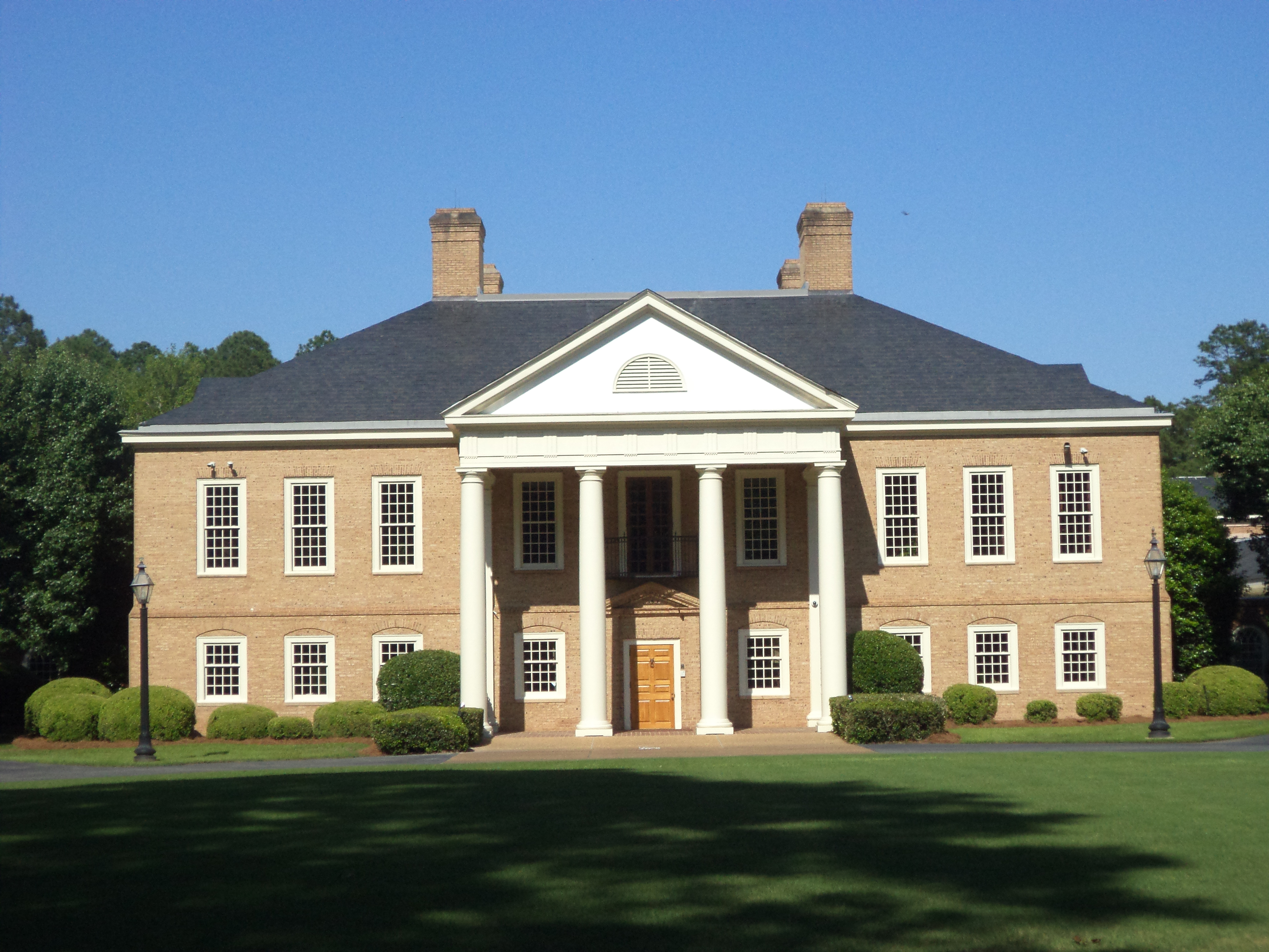 Flowers Bakery Headquarters, 1919 Flowers Cir., Thomasville, Thomas County, Georgia